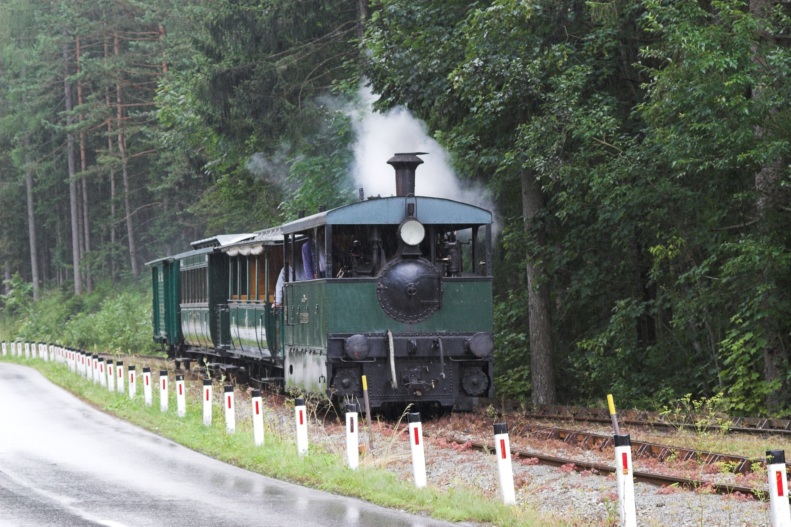 Train of the Mariazell heritage steam tramway with engine "Hellbrunn" near Erlaufsee in Styria.